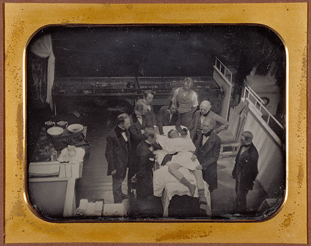 Use of Ether for Anesthesia. By Southworth & Hawes. American, Massachusetts, early 1847. Daguerreotype. 5 3/4 x 7 7/8 in.